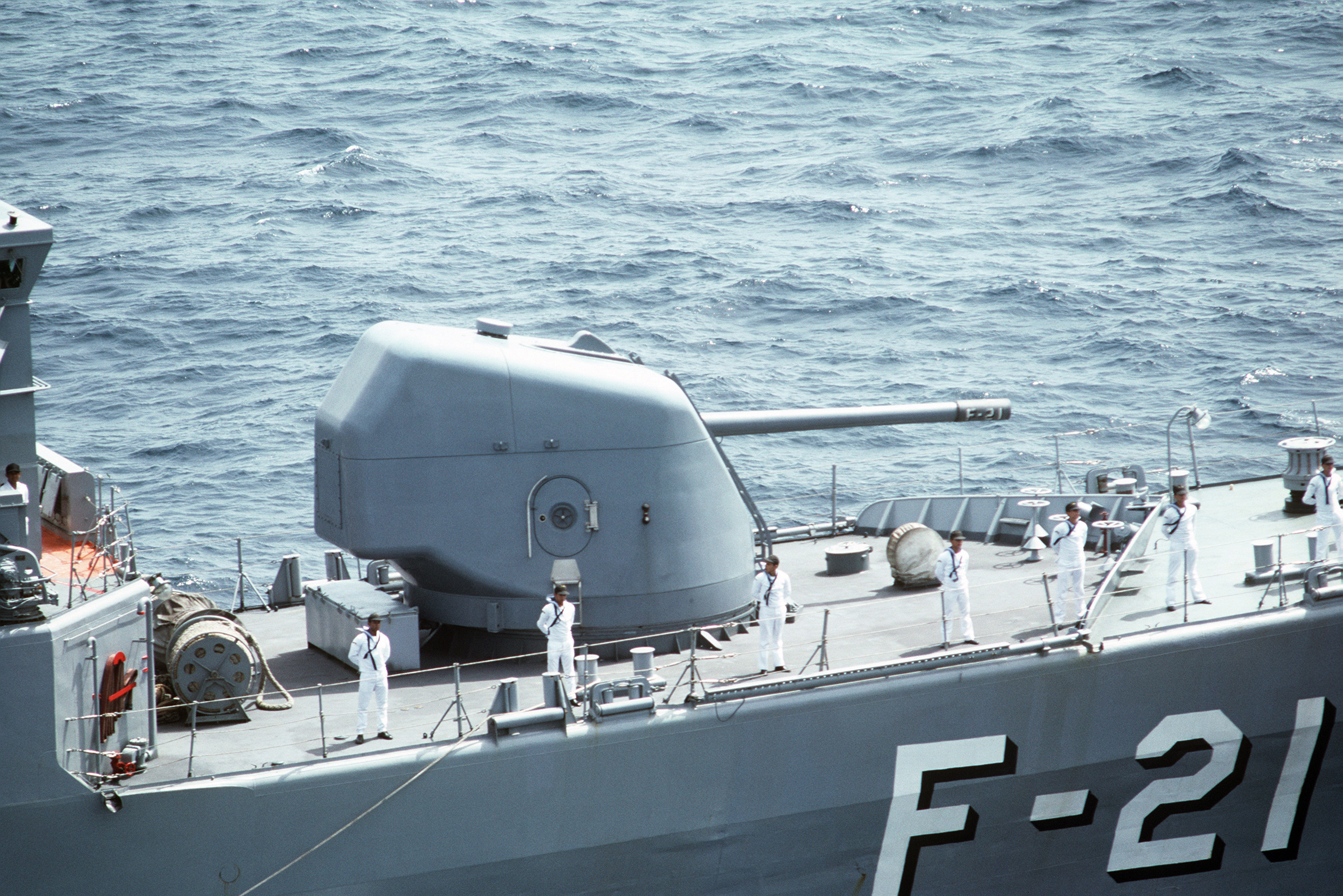 Crew members man the rail beside a 5-inch/127mm gun mount aboard the Venzuelan frigate MARISCAL SUCRE (F 21) DN-ST-87-09866